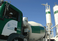 Saudi Readymix Concrete-mixer truck in the foreground with Saudi Readymix's factory silos in the background.